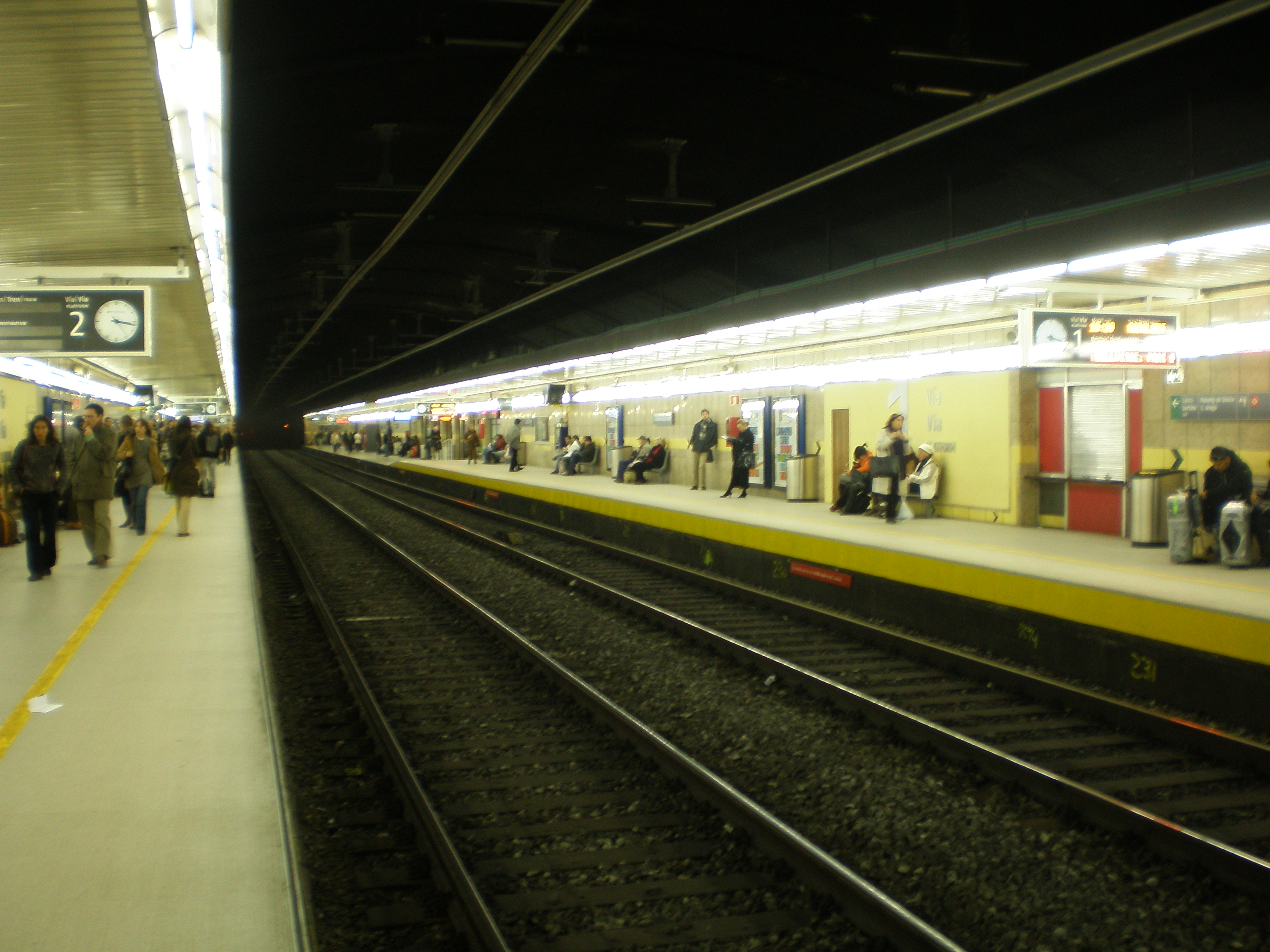 Barcelona Passeig de Gràcia railway station (Catalonia, Spain).